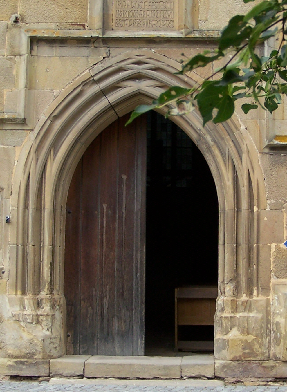 The portal at the Liborius chappel.